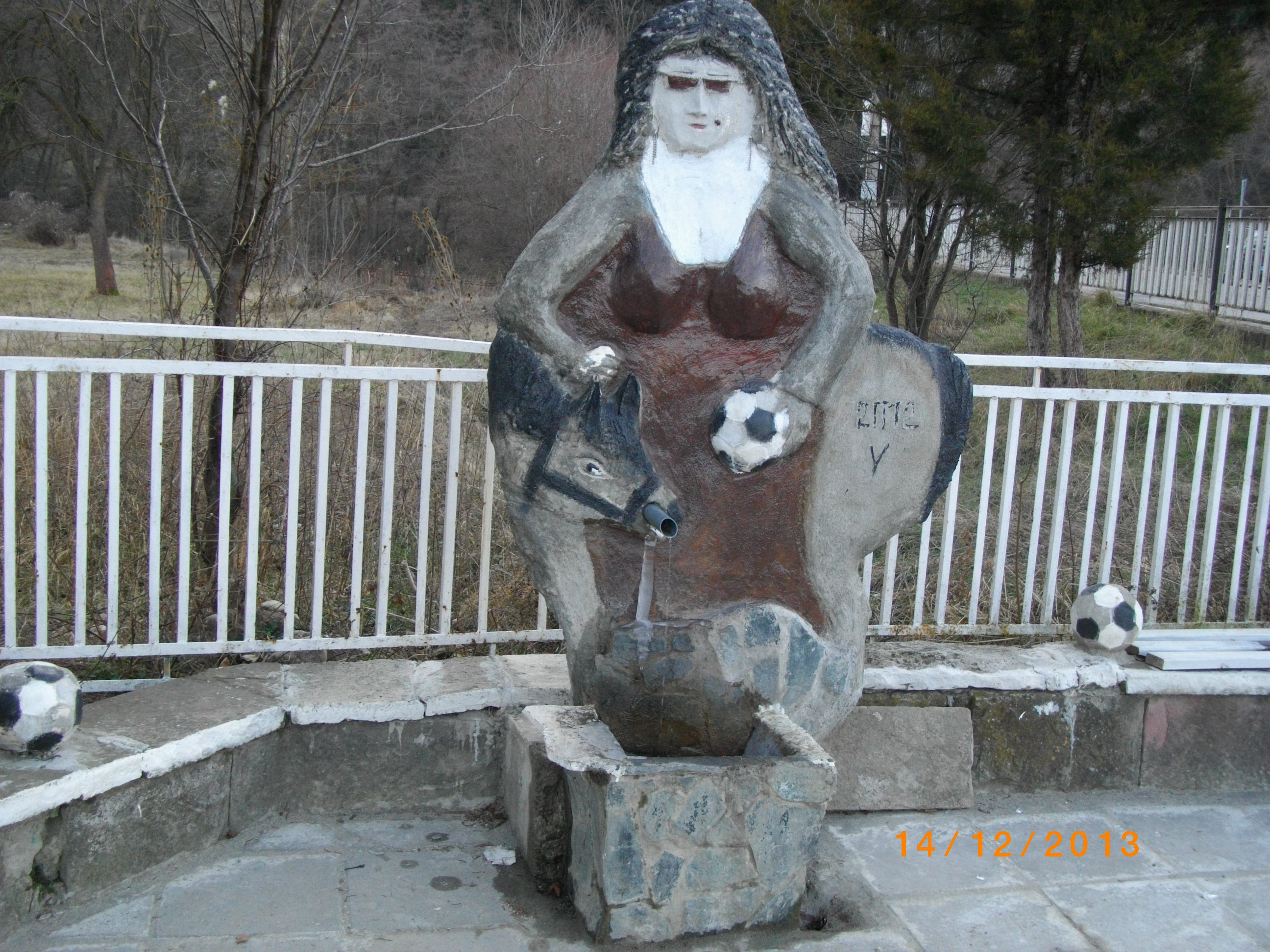 Madonna of Pasarel